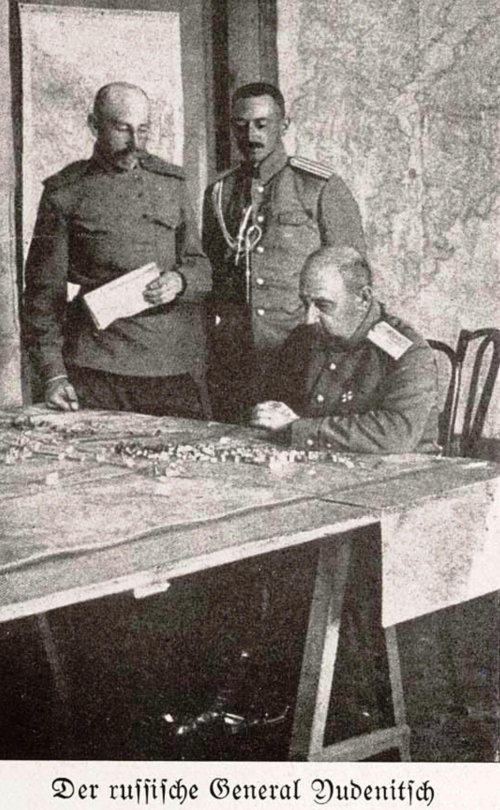 Russian general Nikolai Yudenich (sitting), commander of the Caucasus front during WWI